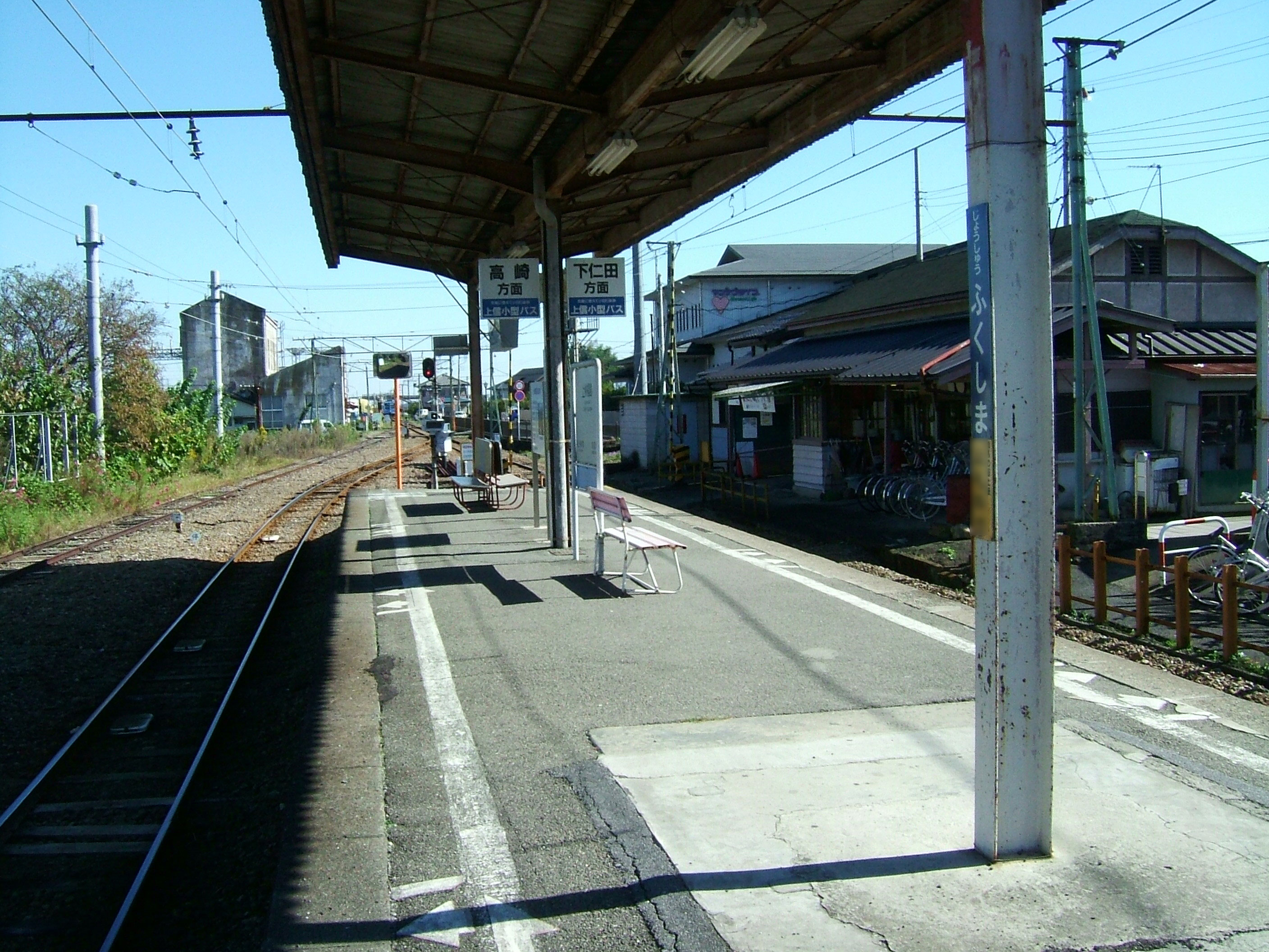 Jōshū-Fukushima Station platform (Jōshin Dentetsu Jōshin Line)